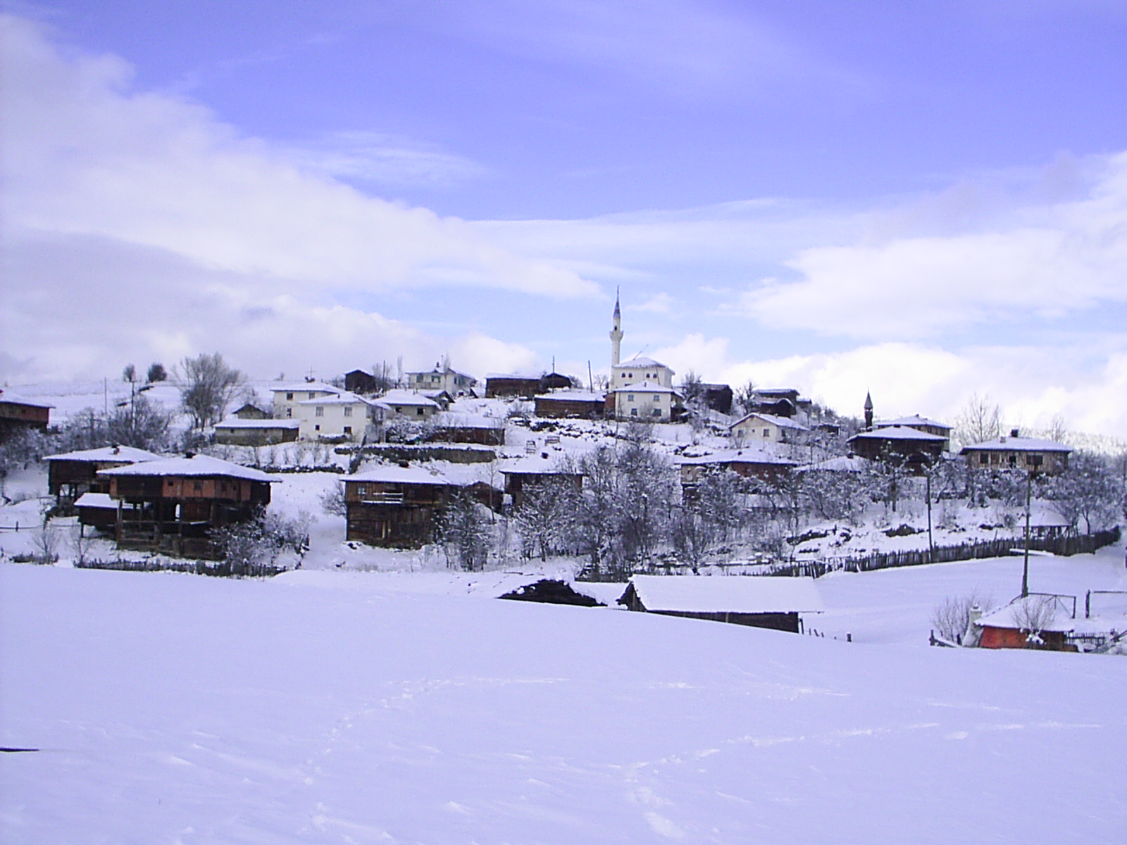 General view of Çambaşı, Taşköprü.